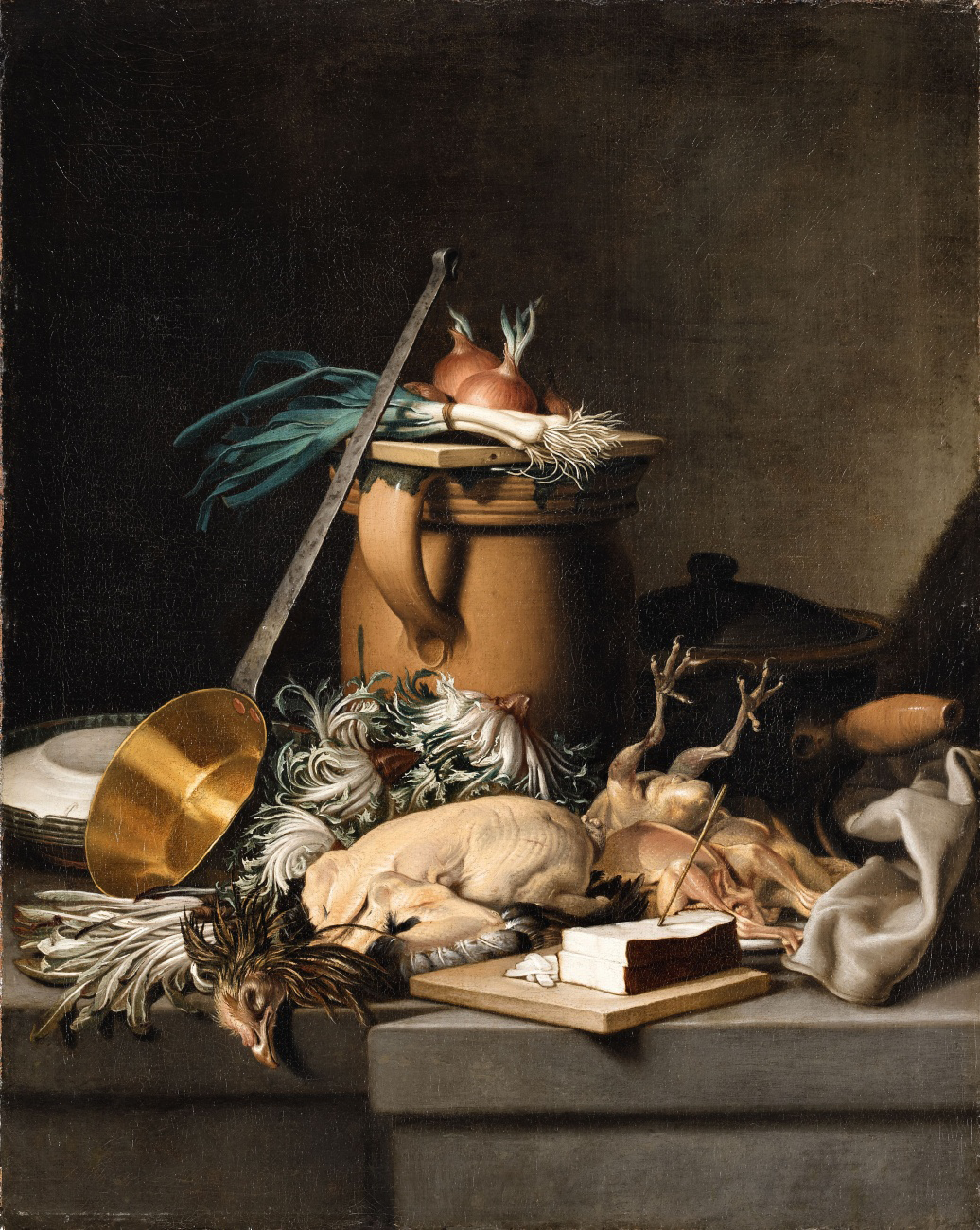 Henry Nicolas Jeaurat de Bertry A Kitchen Still Life with Poultry, Vegetables and Bread Oil on canvas. 75.5 x 59.5 cm